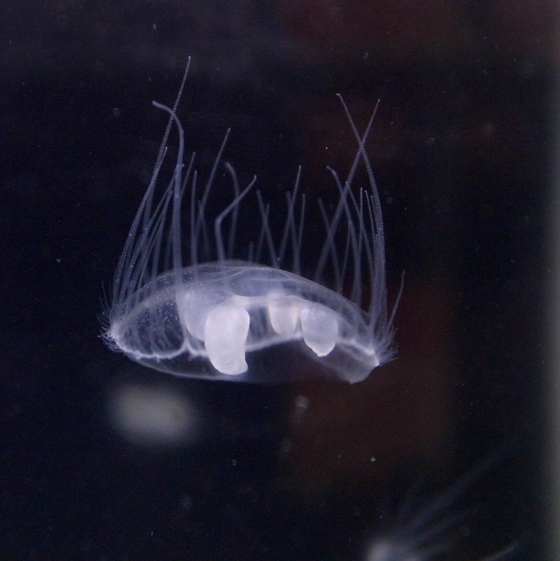 Freshwater jellyfish Craspedacusta sowerbyi Lankester, 1880 in the Suma Aqualife Park (Kobe, Japan).